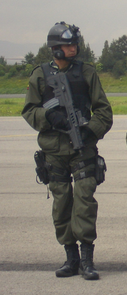 Colombian policeman holding a Tavor Commando assault rifle.